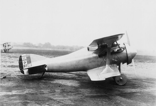 McCook Field Times - Military Magazine